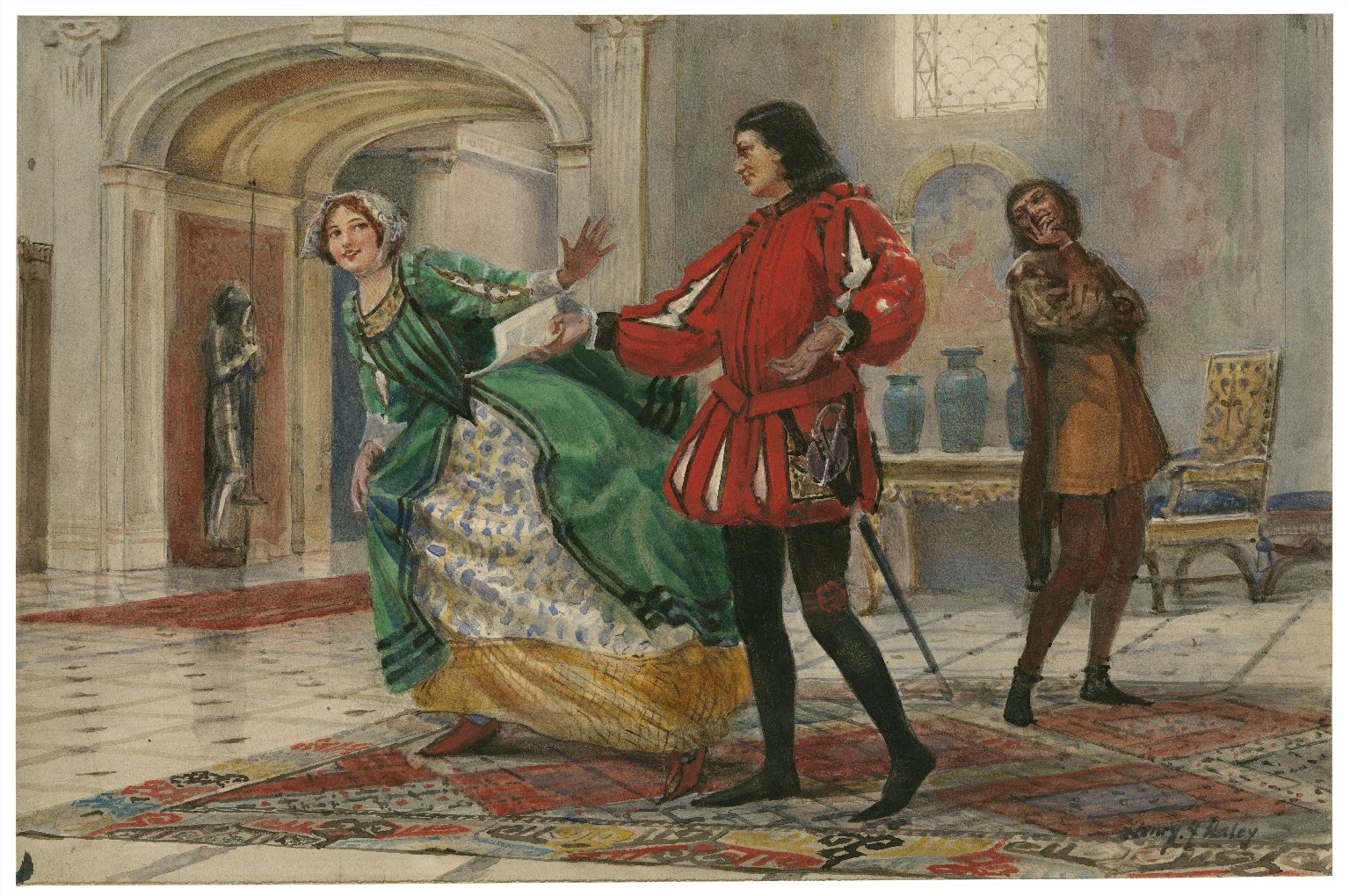 An early 20th century painting by Henry James Haley of Act II, Scene i: Silvia refuses Valentine's letter.